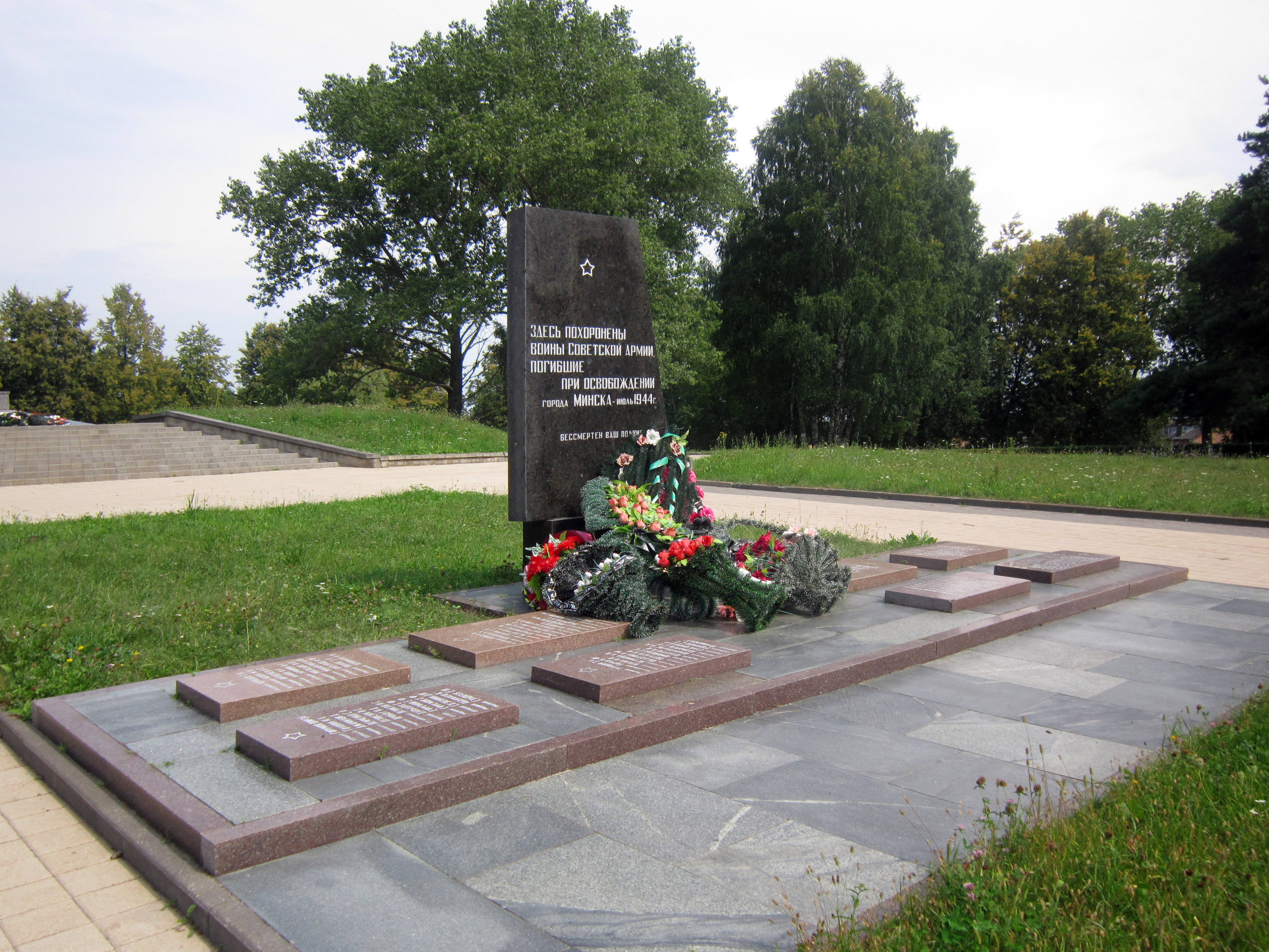 Memorial of victims of Maly Trastsianets extermination camp. Common grave of Soviet soldiers